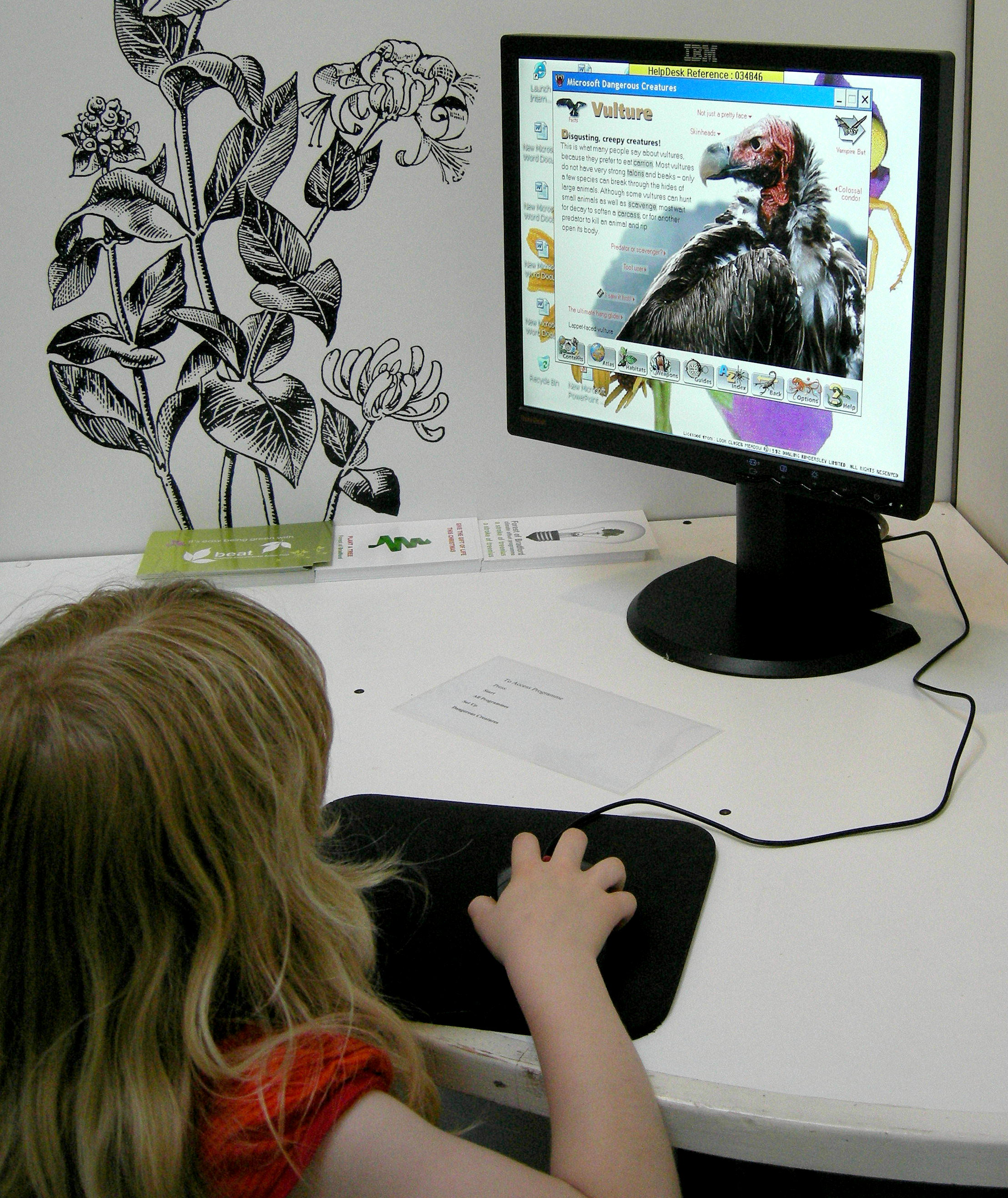 Computer Nature guide, interactive for children, at Bracken Hall Countryside Centre and Museum, Baildon, West Yorkshire, England. NB: The child (a relative of mine) in the image is necessary to demonstrate the child-interactivity of the computer-guide.